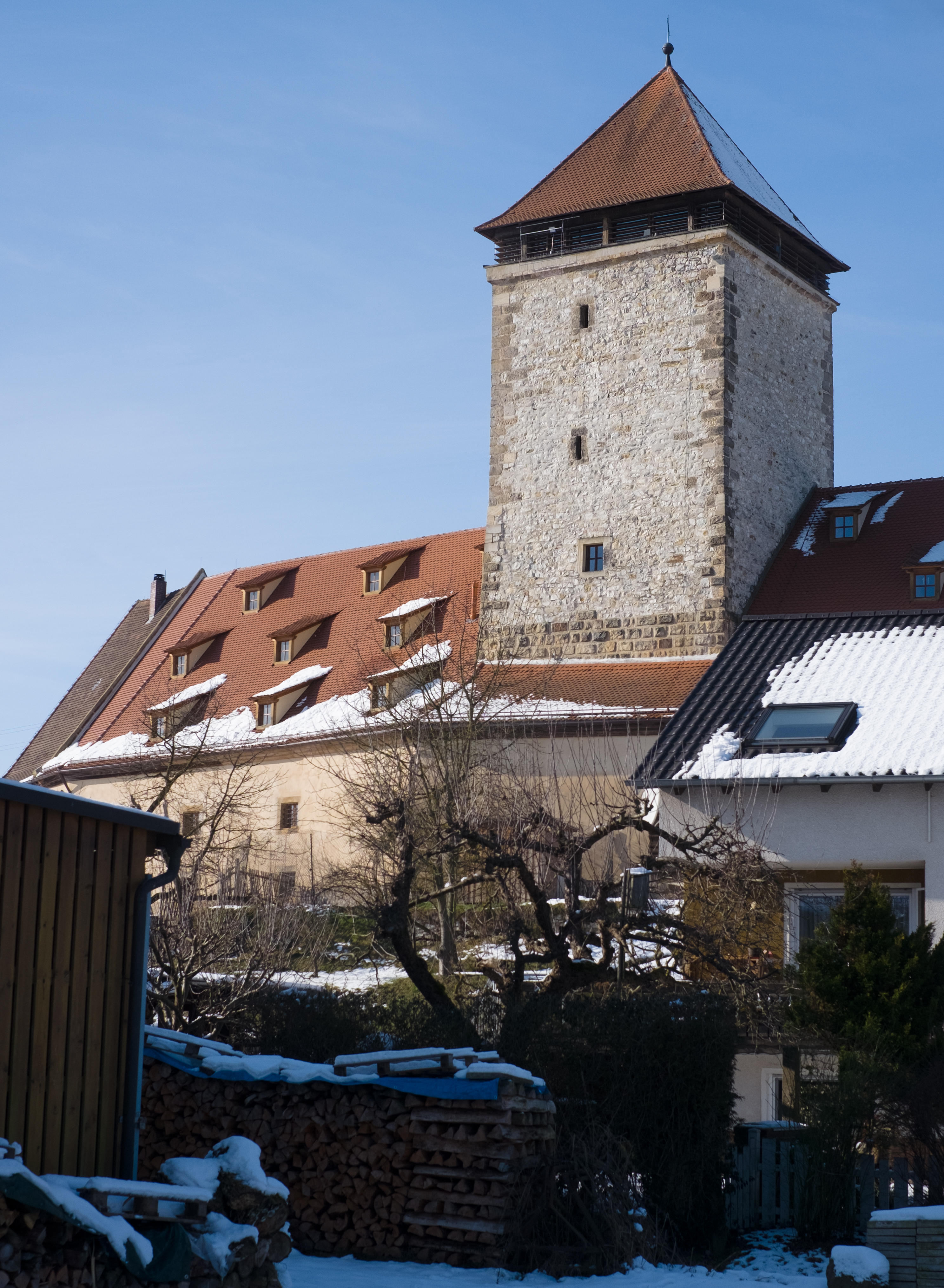 Castle Burg Dagestein, Vilseck, district Amberg-Sulzbach, Bavaria, Germany